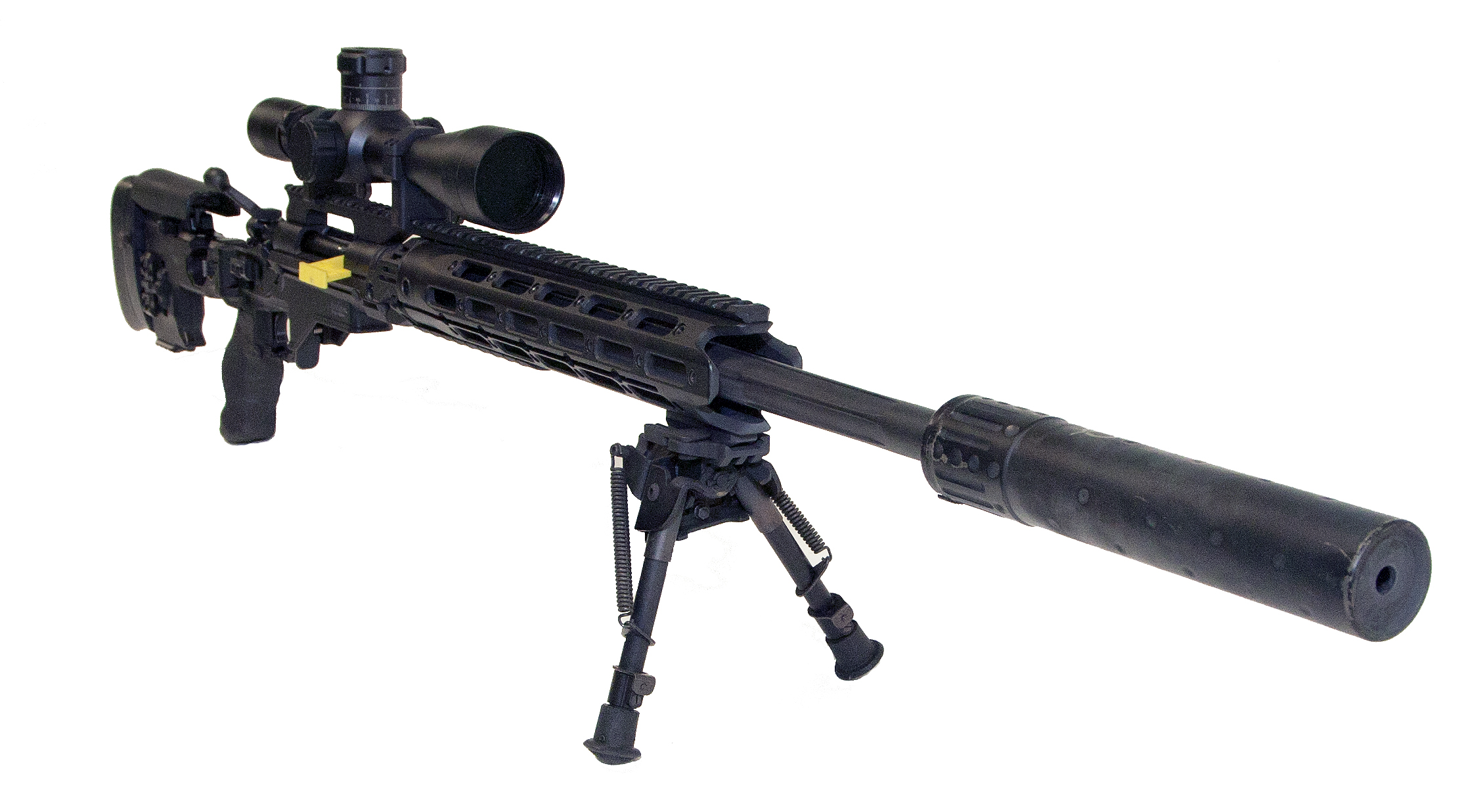 The XM2010 is distinguished by its advanced design and represents a quantum upgrade over the M24. The shooter interface can be tailored to accommodate a wide range of shooter preferences and its folding stock provides Soldier flexibility in transporting the weapon during operations. The weapon also incorporates advanced corrosion resistant coatings to ensure longevity. The aluminum, steel, and high impact polymers used in the weapon’s construction are lightweight and rugged. The Enhanced Sniper Rifle (ESR) is equipped with a Leupold Mark 4 6.5-20x50mm scope. The variable power scope includes a first focal plane reticle so when the user dials in, the reticle pattern scales with the zoom enabling the sniper to estimate range at any power setting. The scope also employs a reticle pattern that facilitates faster and more accurate range estimation and utilizes mil turret adjustments to eliminate MOA to mil conversion. The targeting stadia reticle allows for simultaneous elevation and windage holds that eliminate the need to dial in adjustments.